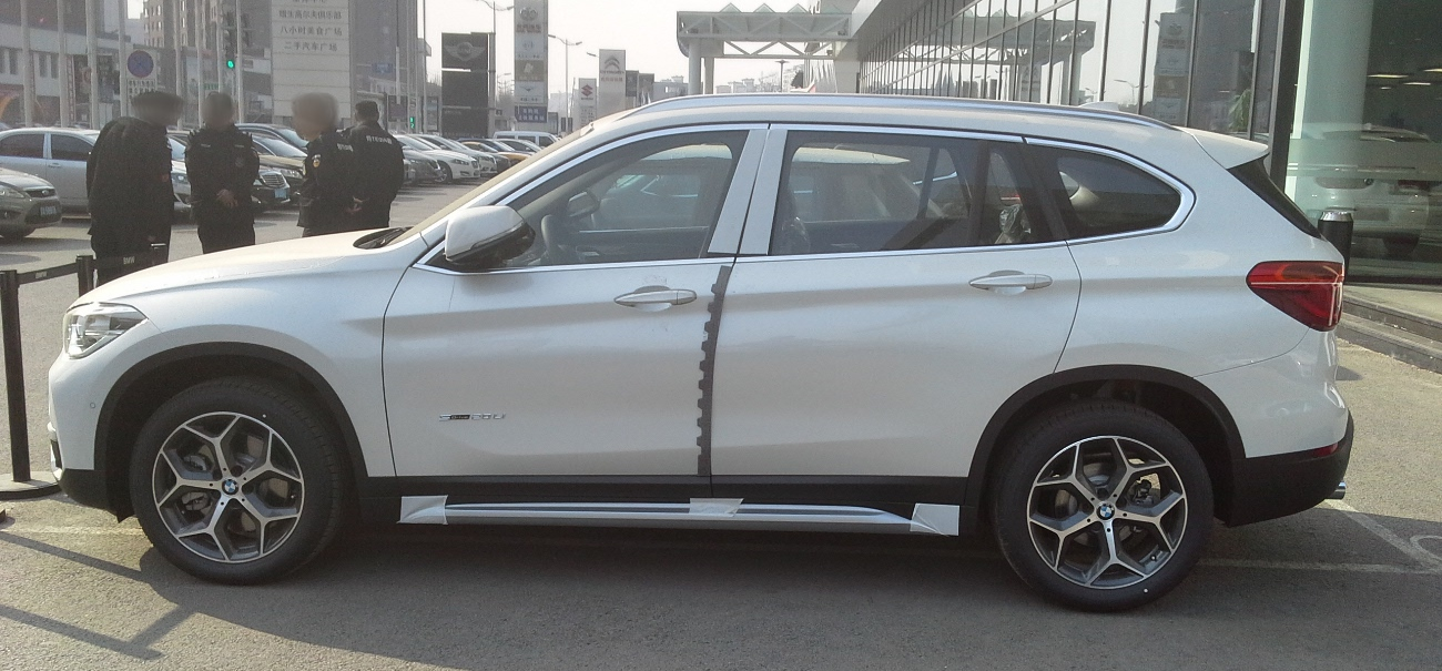 BMW X1 F49 Li photographed in Shenyang, Liaoning province, China.